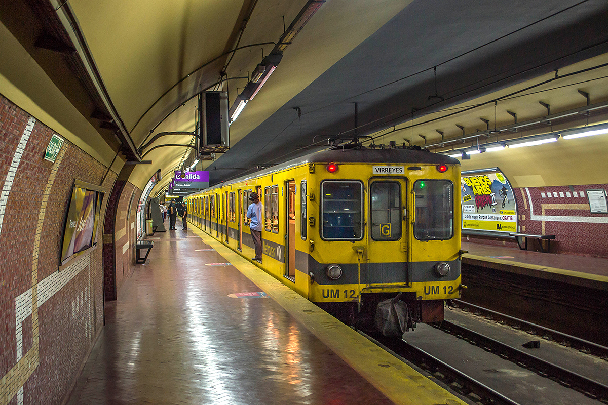 Buenos Aires Underground Line E rolling stock at José Maria Moreno station.